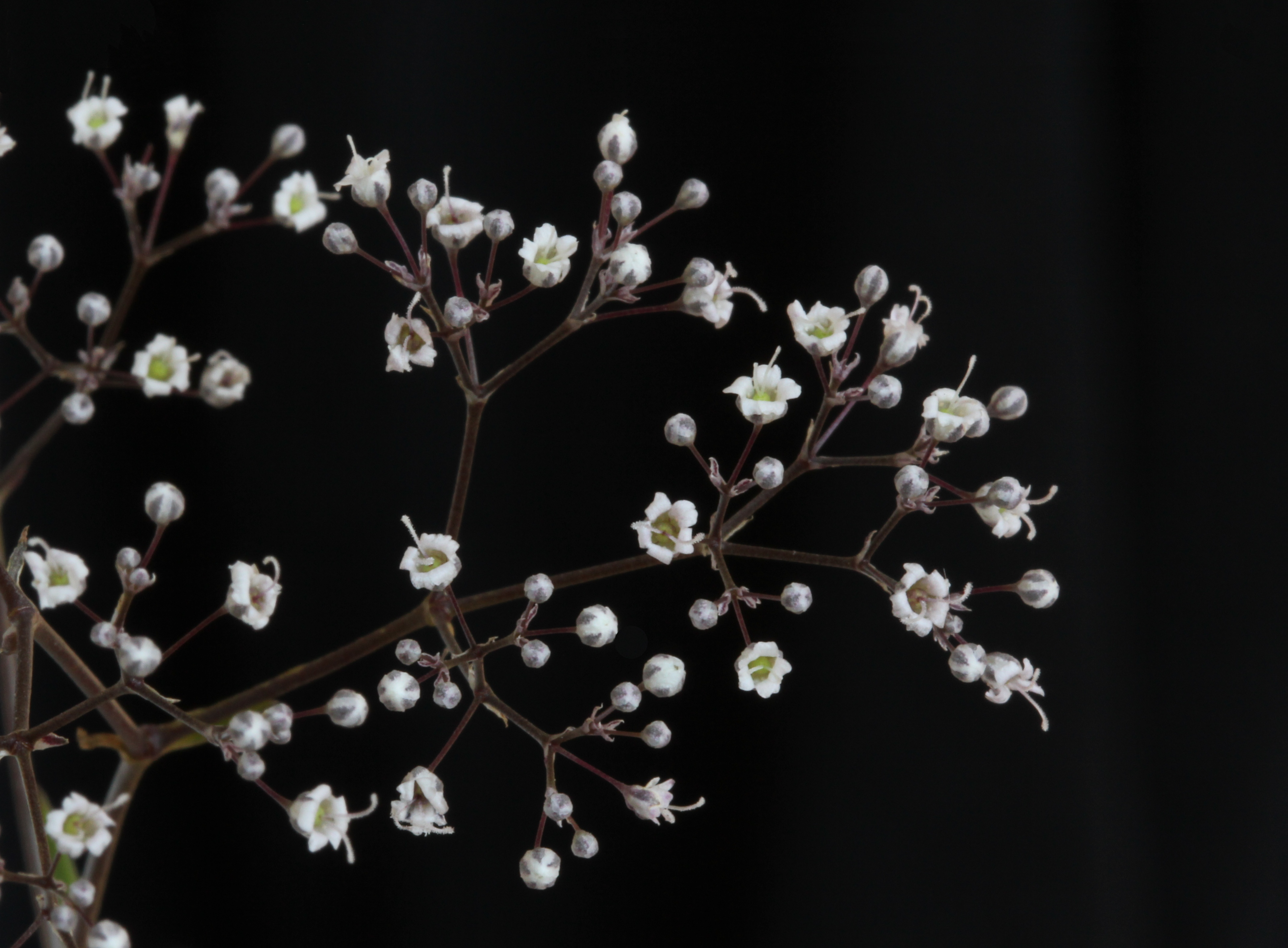 Close-up of baby's breath (Gypsophila paniculata) flowers. Picked from roadside near the Point Betsie lighthouse, Michigan. Each flower is roughly 1 mm (less than 1/16th in) across.